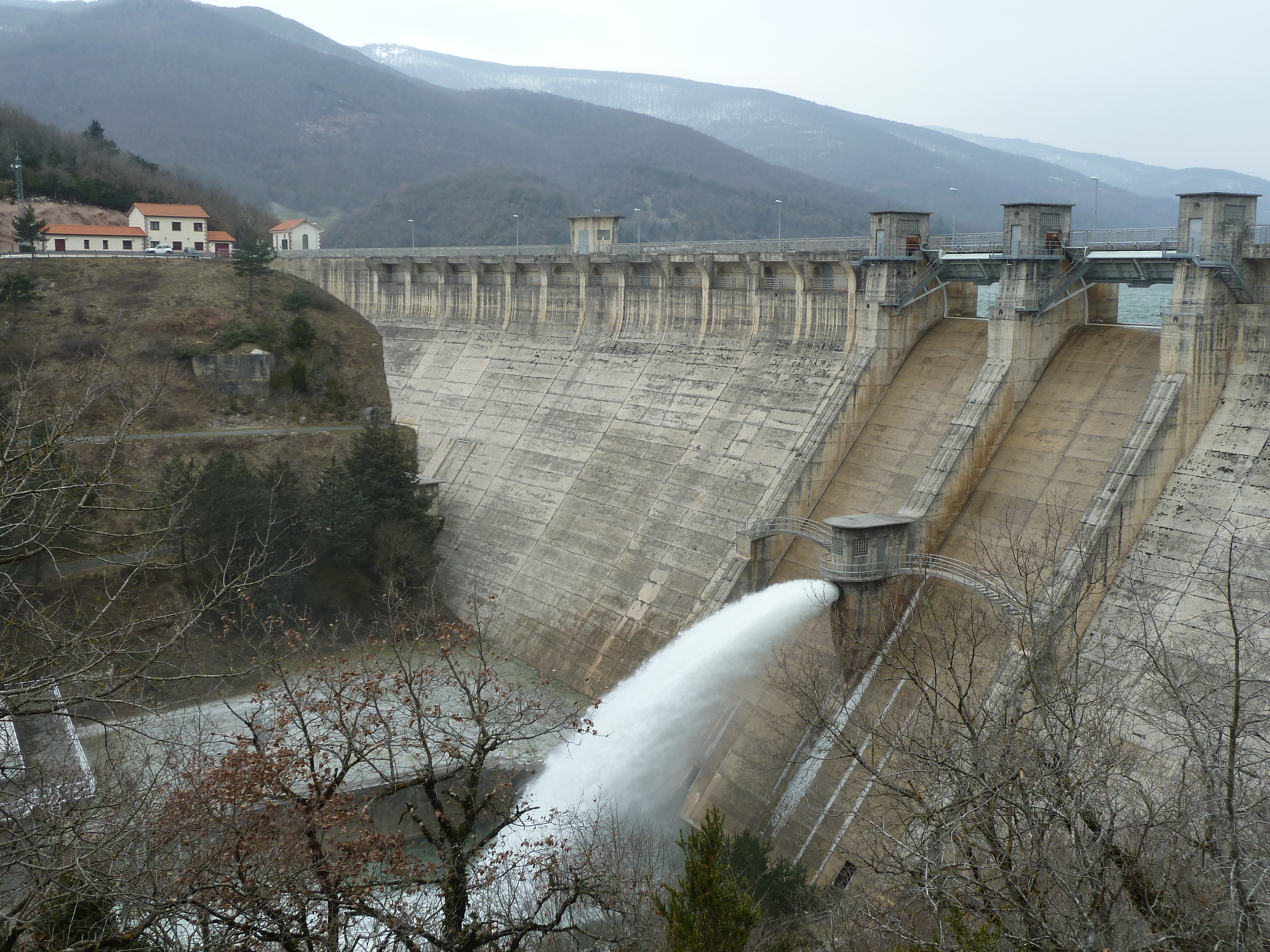 The dam of Eugi, in operation since 1973, is located in the valley of Esteribar (26 kilometers from Pamplona). Its construction began in 1966 to ensure supply to the growing population and industry of Pamplona and its area, which previously was supplied by the spring of Arteta, in use since 1886, because this spring was no longer able to meet the demand for water, especially in times of drought. It is a gravity dam ground curve and its height above the level of the river is 44.3 m.